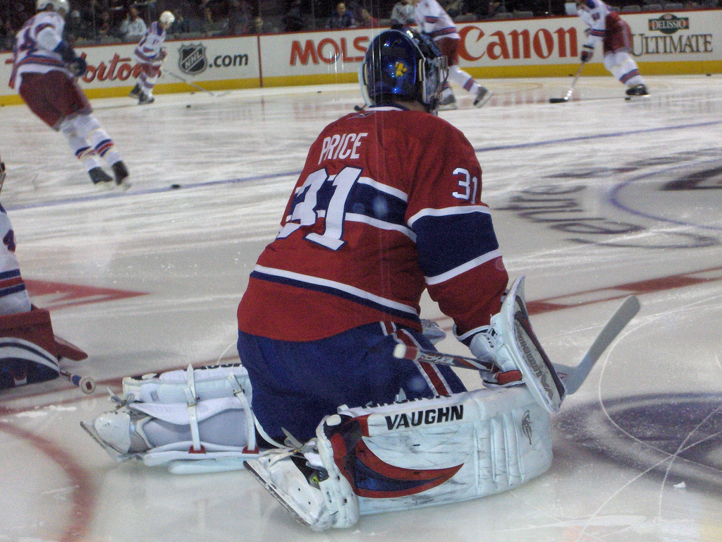 Carey Price, goaltender for the Montreal Canadiens.